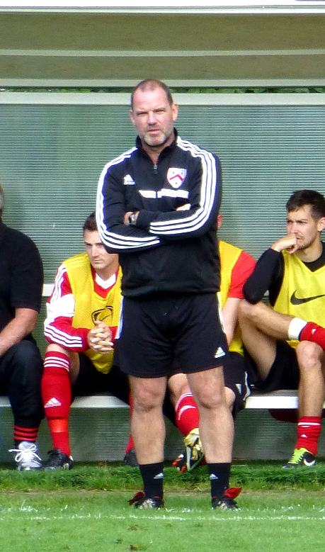 Jon Purdie, joint manager of AFC Wulfrunians in September 2013.